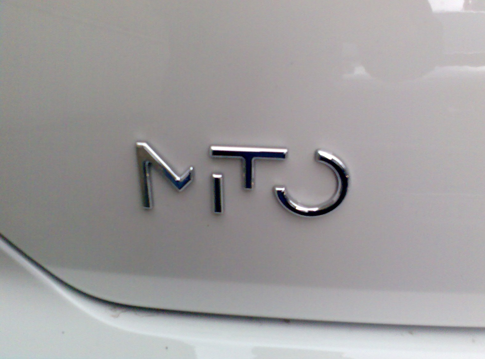 MiTo logo